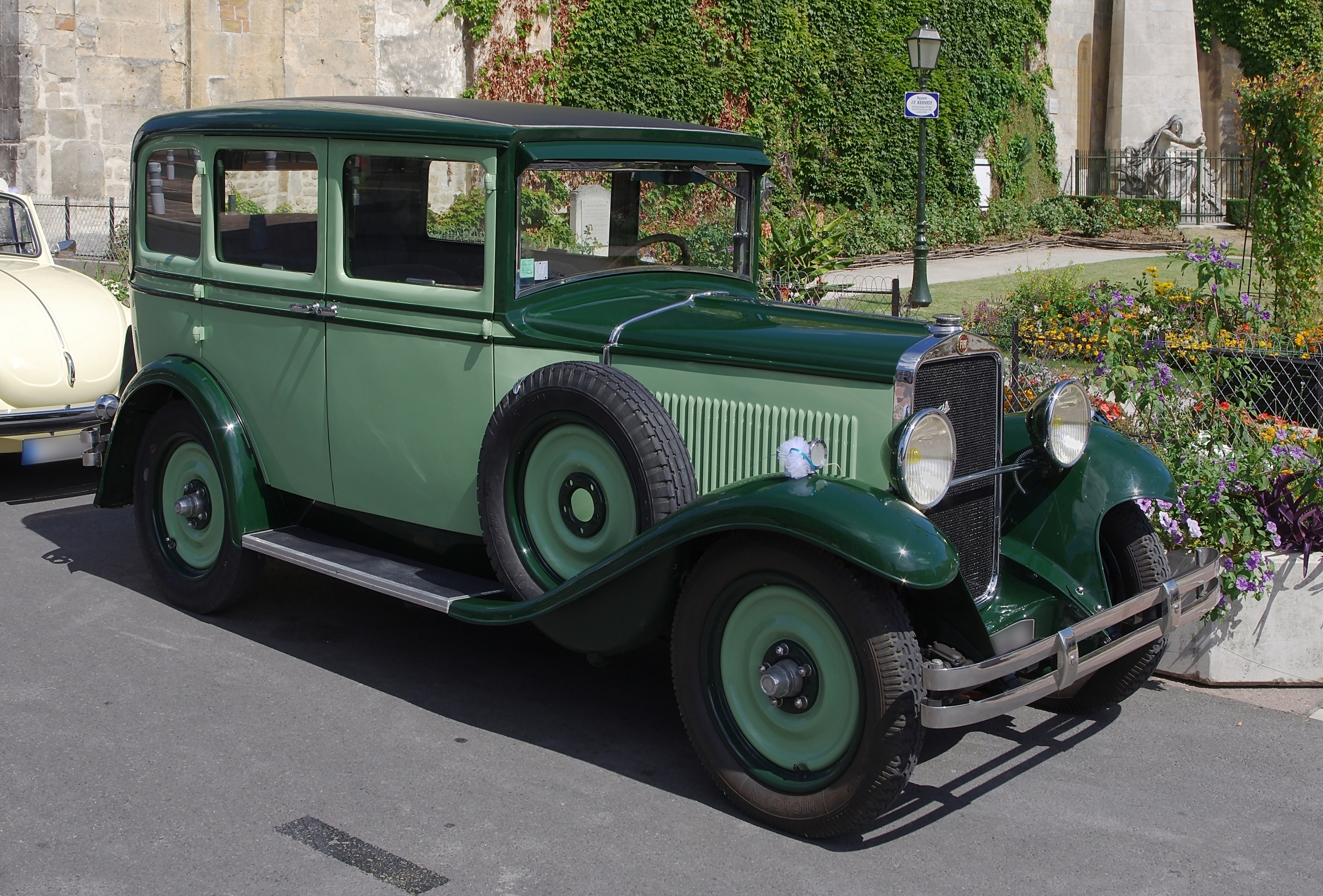 Fiat 514 L, built in Italy from 1929 to 1932 and in Spain from 1933 to 1935. Angoulême, France.